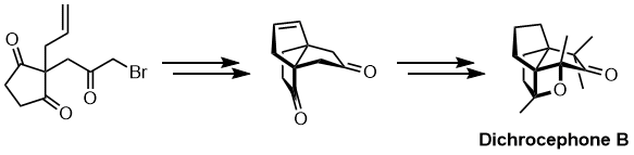 The route toward the chemical synthesis of dichrocephone B